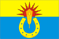 Uspensky rayon (Krasnodar krai), flag